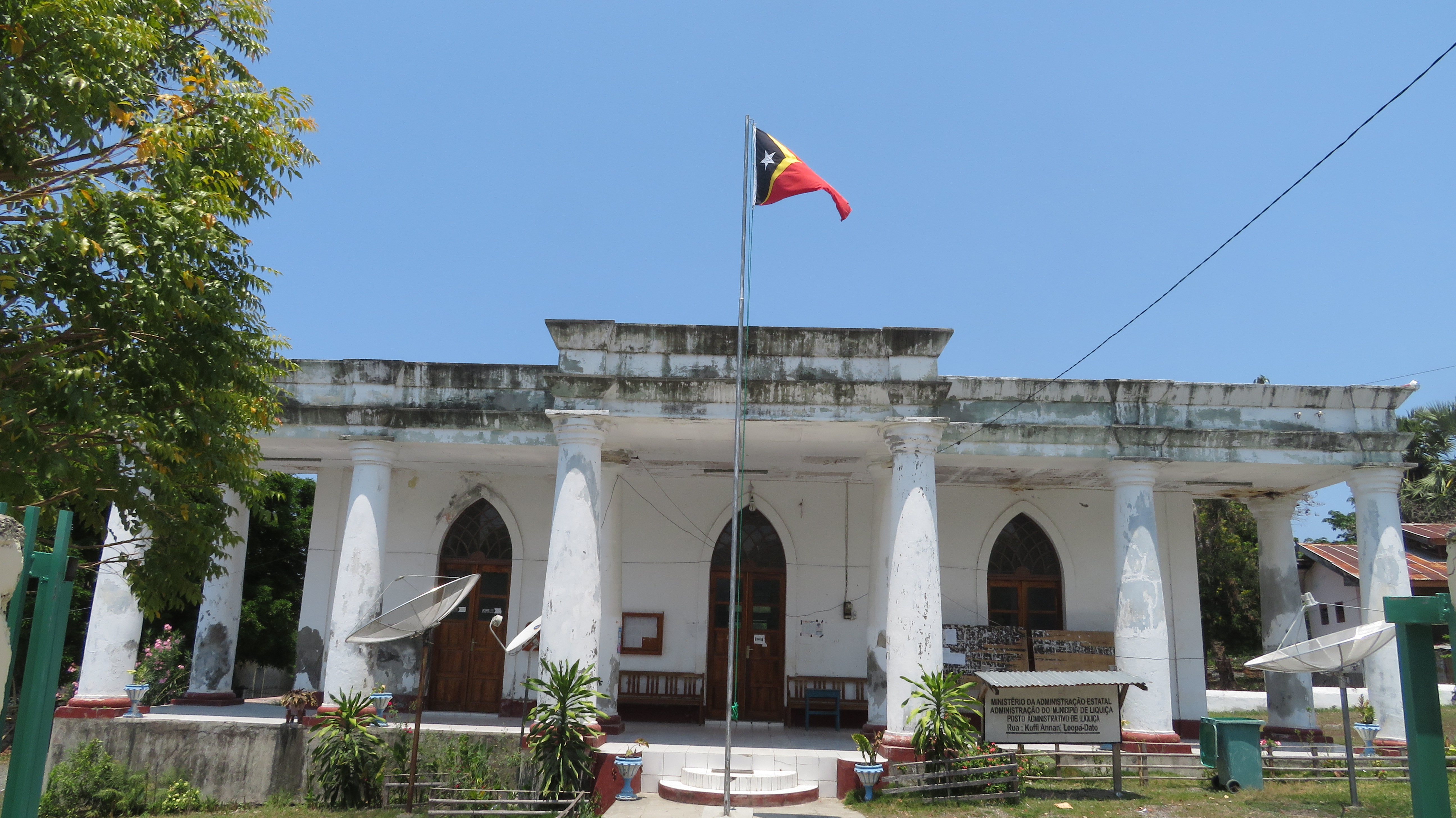 Administration building of Município de Liquiçá, Dato (Liquiçá), East Timor